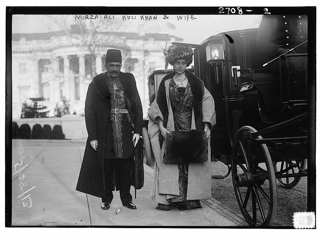 Mirza Ali Kuli Khan and wife May 28, 1913 at the White House in Washington, DC